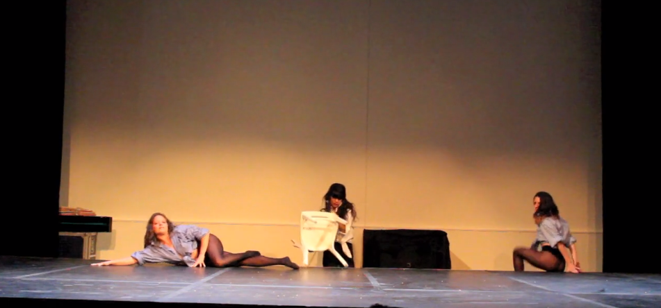 JUSTIFY is an interactive group piece inspired by Madonna's songs "Erotica" and "Justify My Love". It was commissioned by Wants&Needs for the "Short & Sweet 'Covers Edition' " in Montreal, as part of the Festival TransAmériques. Clara Furey was one of the performers.